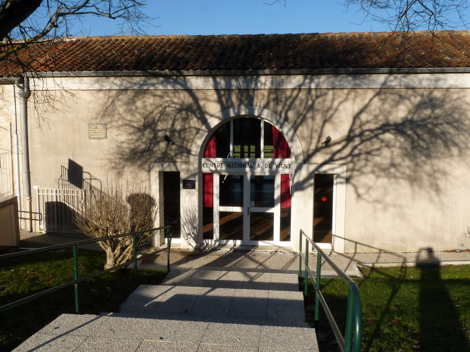 show room